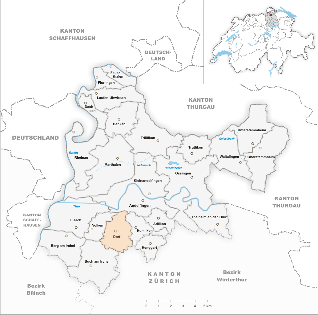 Municipality Dorf